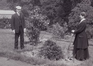 William Blathwayt and Maud Joachim slide is dated 17/17/6/10?. From a unique collection of glass plate negatives taken by Col. Linley Blathwayt of Eagle House, Batheaston, home of refuge for suffragettes between 1908 and 1912.